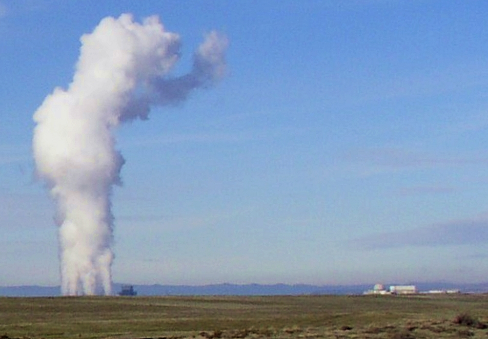 Plume from Nuclear Power Plant on Hanford Reservation as seen from south.